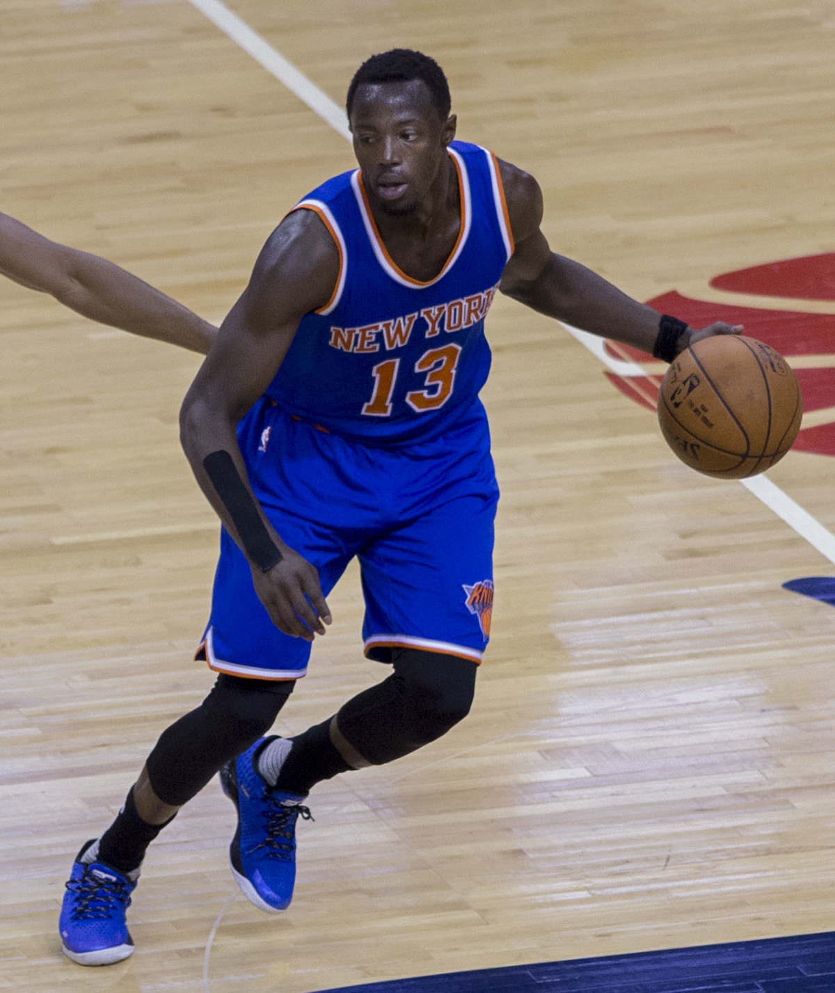 Knicks at Wizards 10/31/15